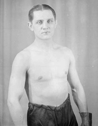 "Three-quarter length portrait of pugilist Pete Latzo standing in front of a light-colored backdrop in a room in Chicago, Illinois."